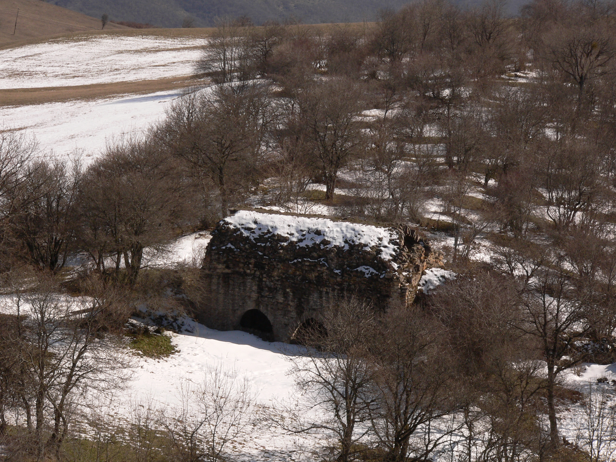 Ericavank Monastery, VI century. vil.Artzvanik, Syunik region, Armenia.